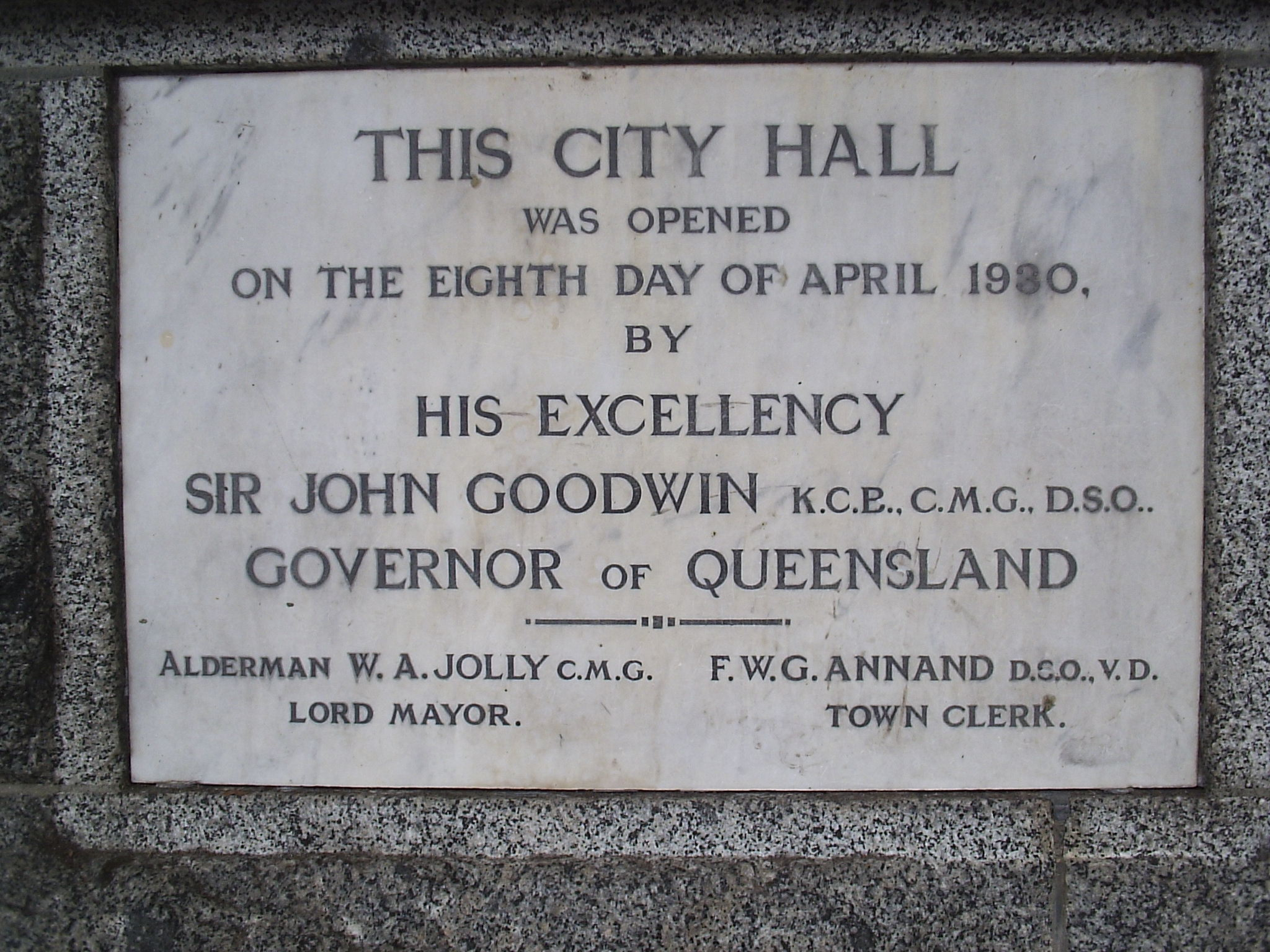 Brisbane City Hall Foundation Stone number 3